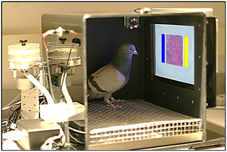 A chamber used to train and test pigeons' ability to classify images. It is equipped with a food pellet dispenser, and a touch-sensitive screen upon which the medical image (center) and choice buttons (blue and yellow rectangles) were presented. The bird pecks on the button which it thinks is the correct image class and is rewarded accordingly with food. Note that the birds were fed and watered normally and the reward is simply an added bonus.